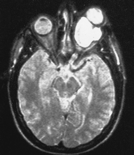 EYE AND OCULAR ADNEXA: PILOCYTIC ASTROCYTOMA Magnetic resonance image of a large retrobulbar optic nerve tumor causing massive proptosis.